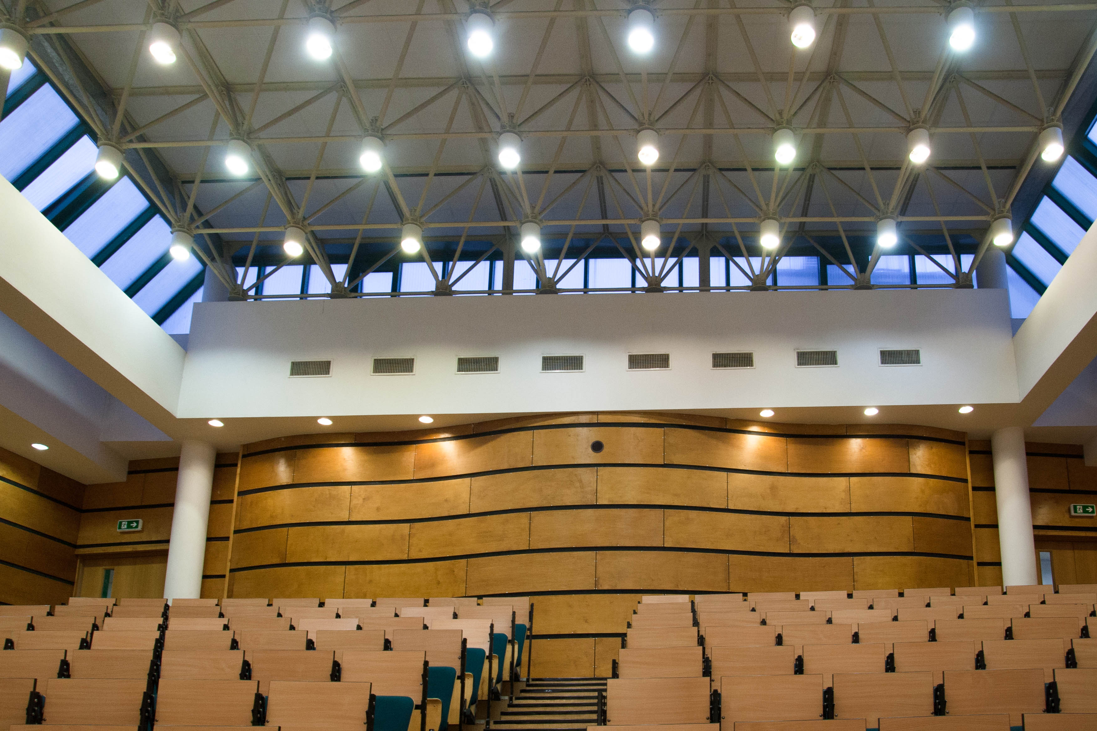 Sala wykładowa - UŁa